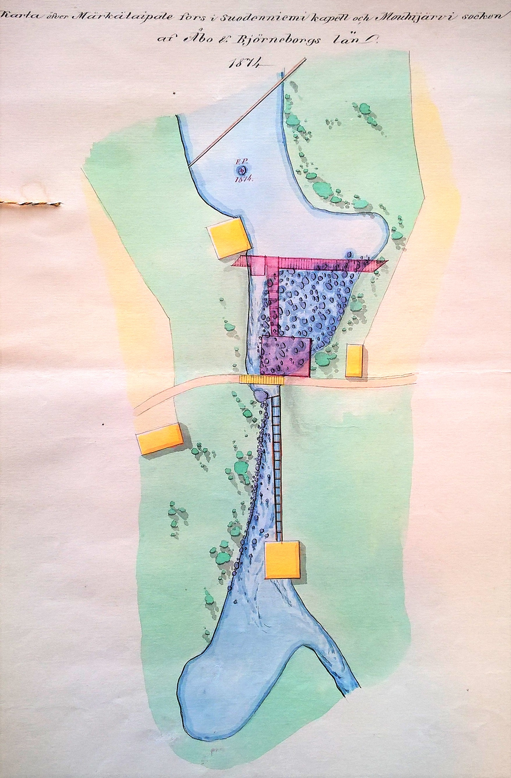 Map of Taipaleenjoki rapids (1874) in Sastamala, Finland